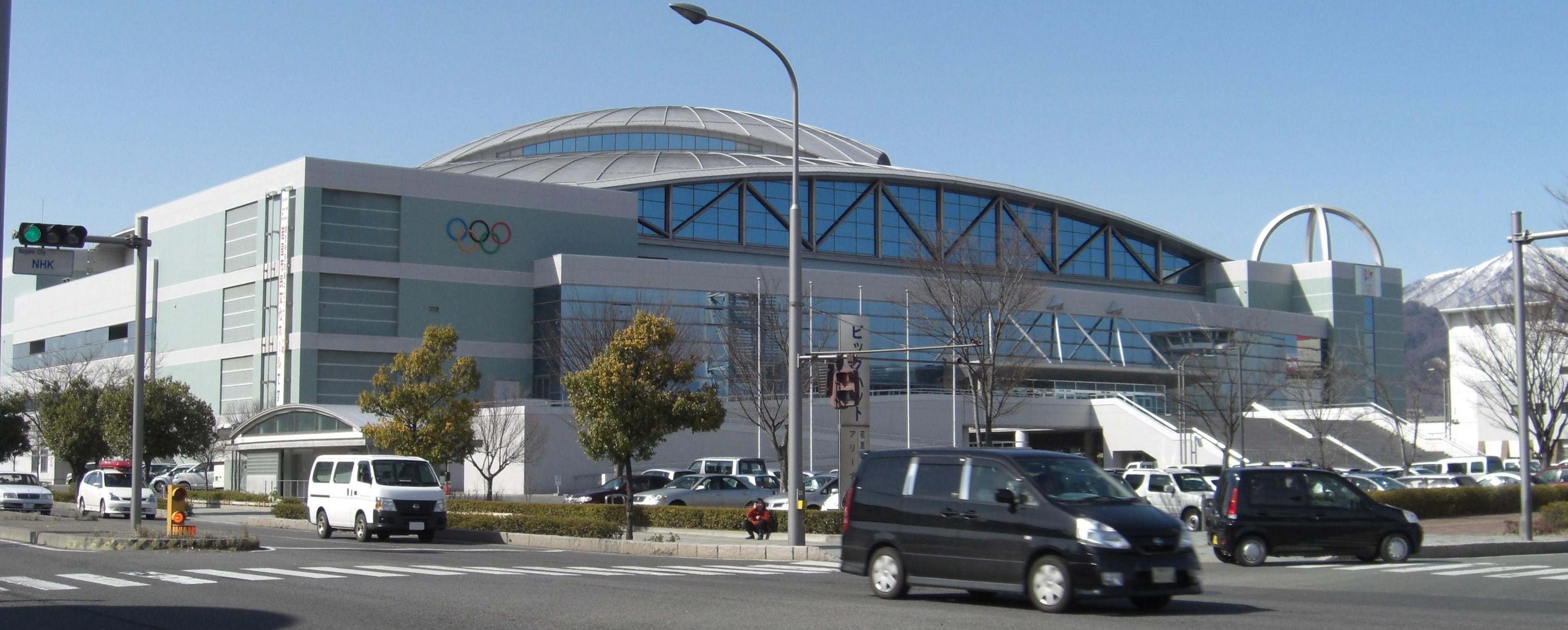 Big Hat